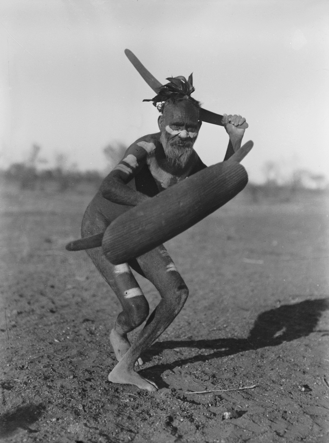 Luritja man demonstrating method of attack with boomerang under cover of shield. An indigenous man with headdress and body paint is posing with a boomerang in his hand raised behind his head, with a shield and two additional boomerangs held in front of him (Central Australia).